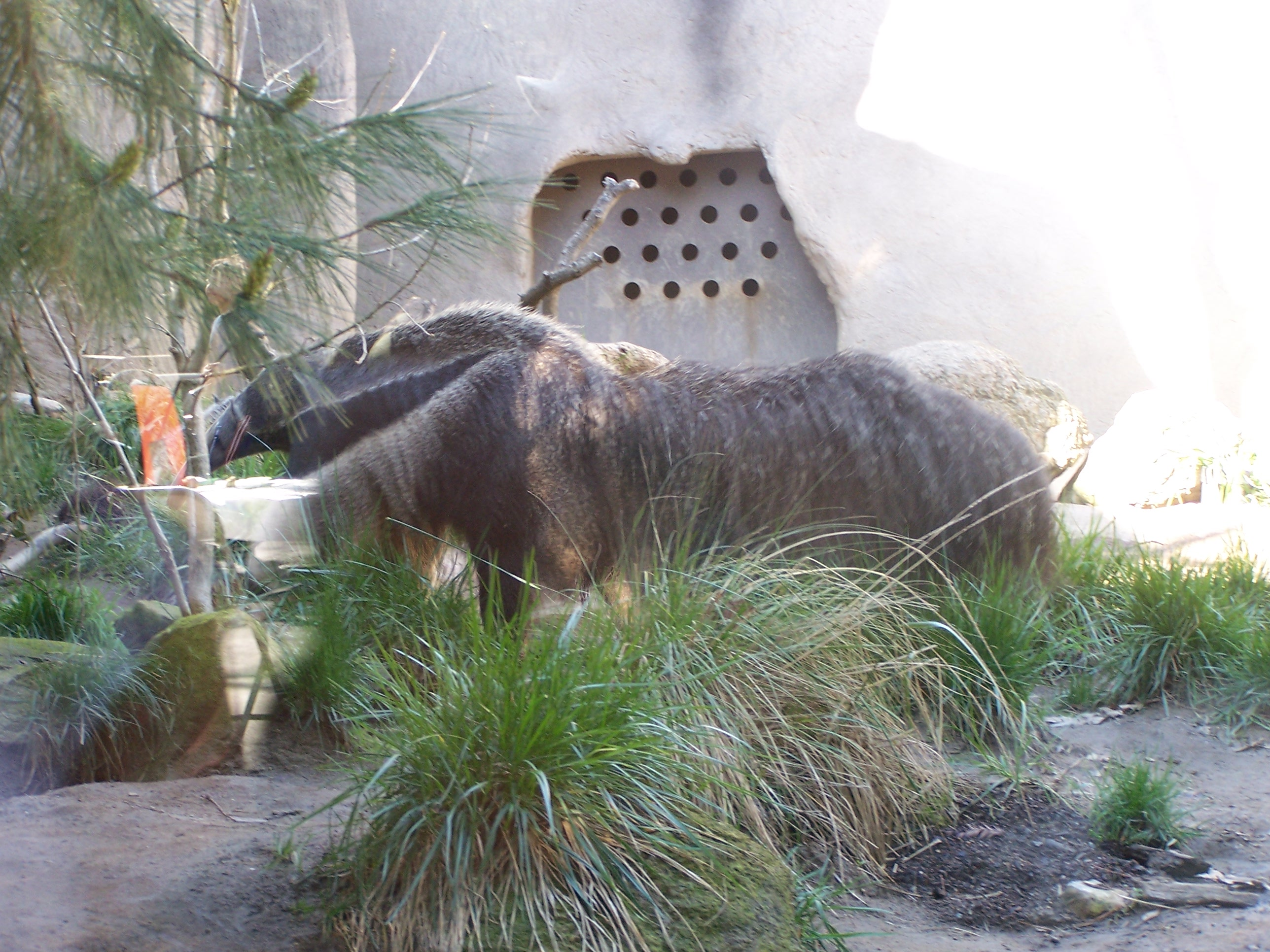 Giant Anteater in Sacramento Zoo